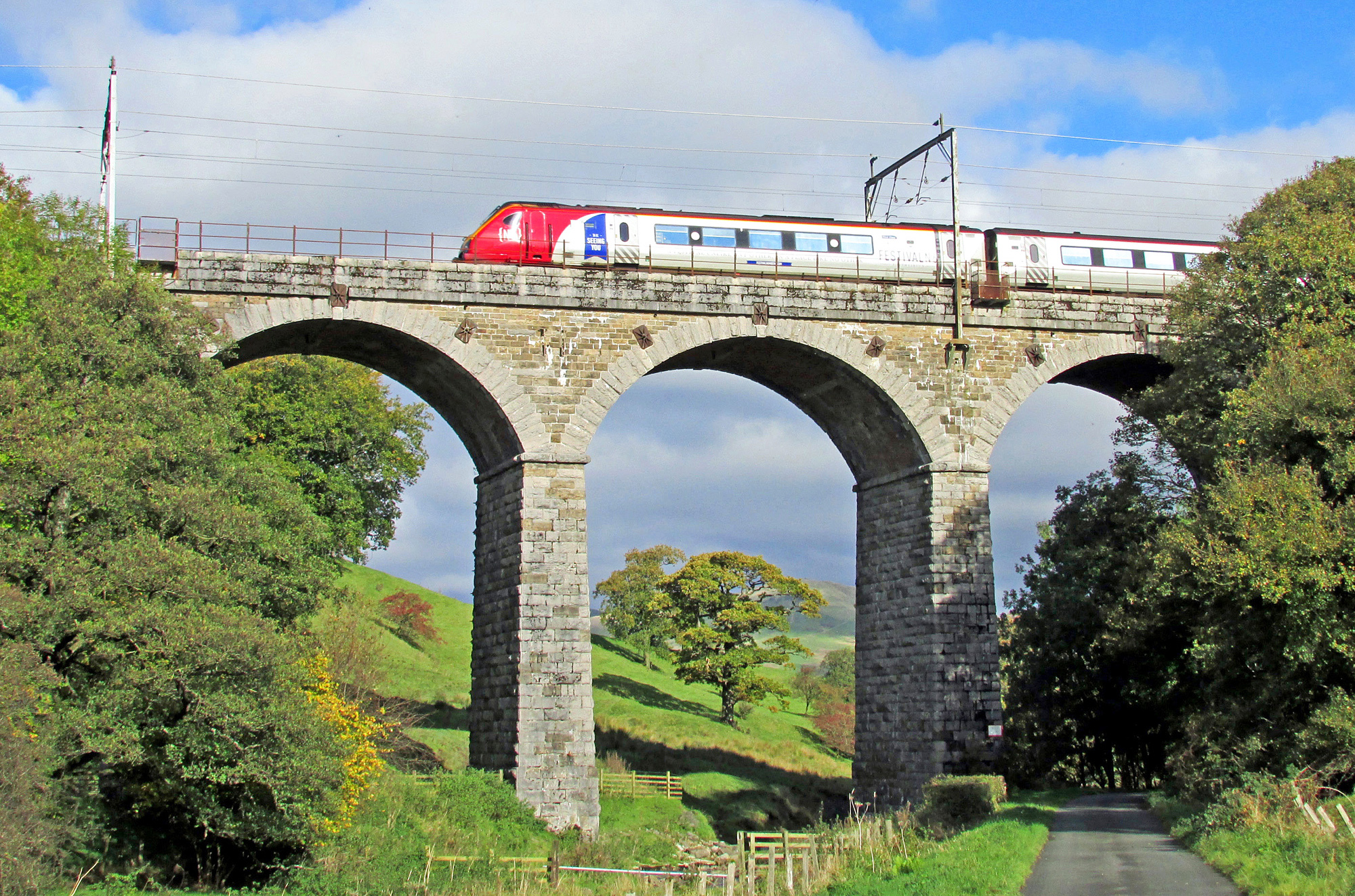 Docker Garths Viaduct near Grayrigg, Cumbria, England.